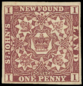 First postage stamp of Newfoundland (now Canada), 1 penny, 1857, scott#1